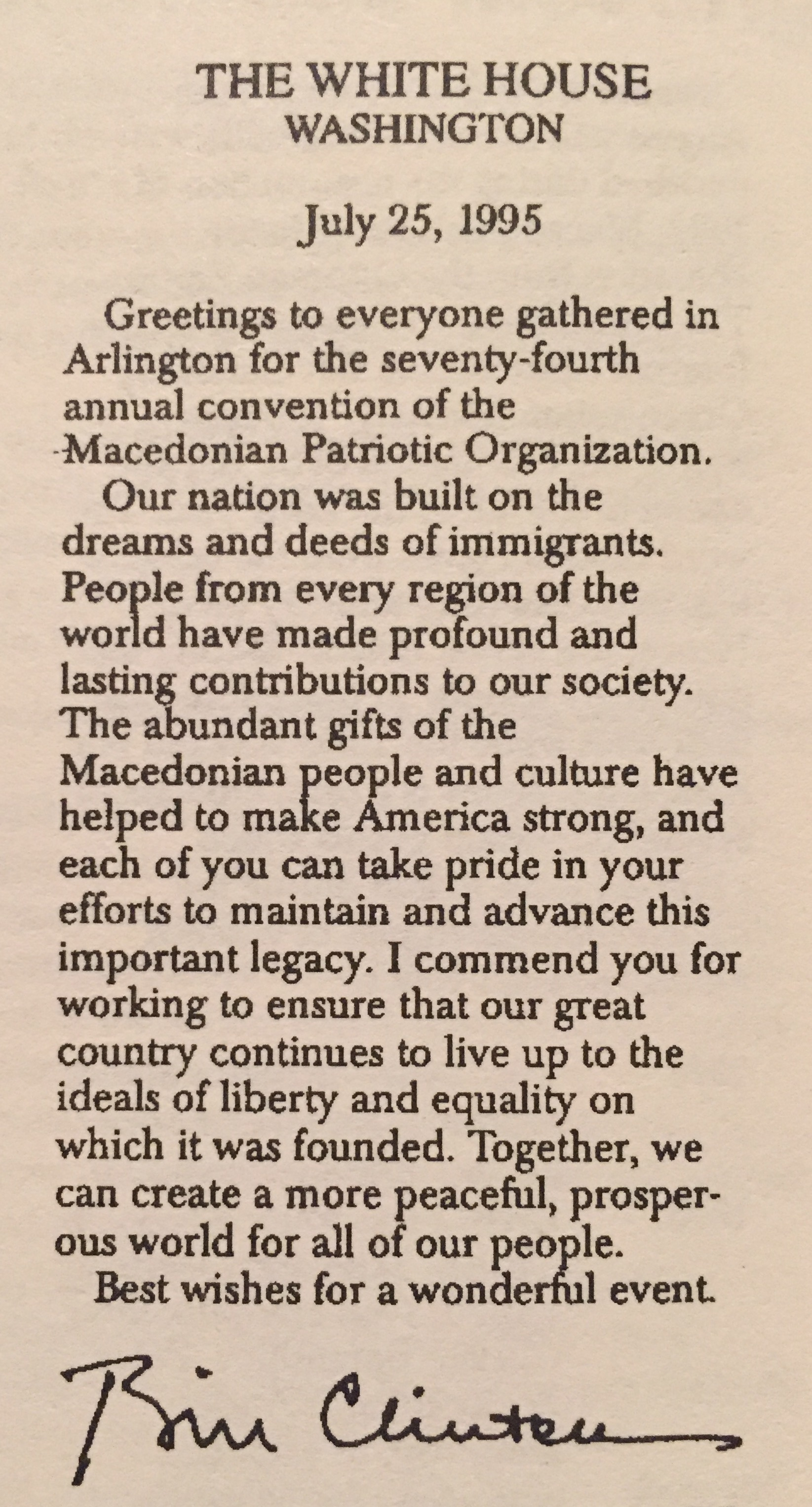 President Bill Clinton's official greeting letter to 76th annual convention of the Macedonian Patriotic Organization.